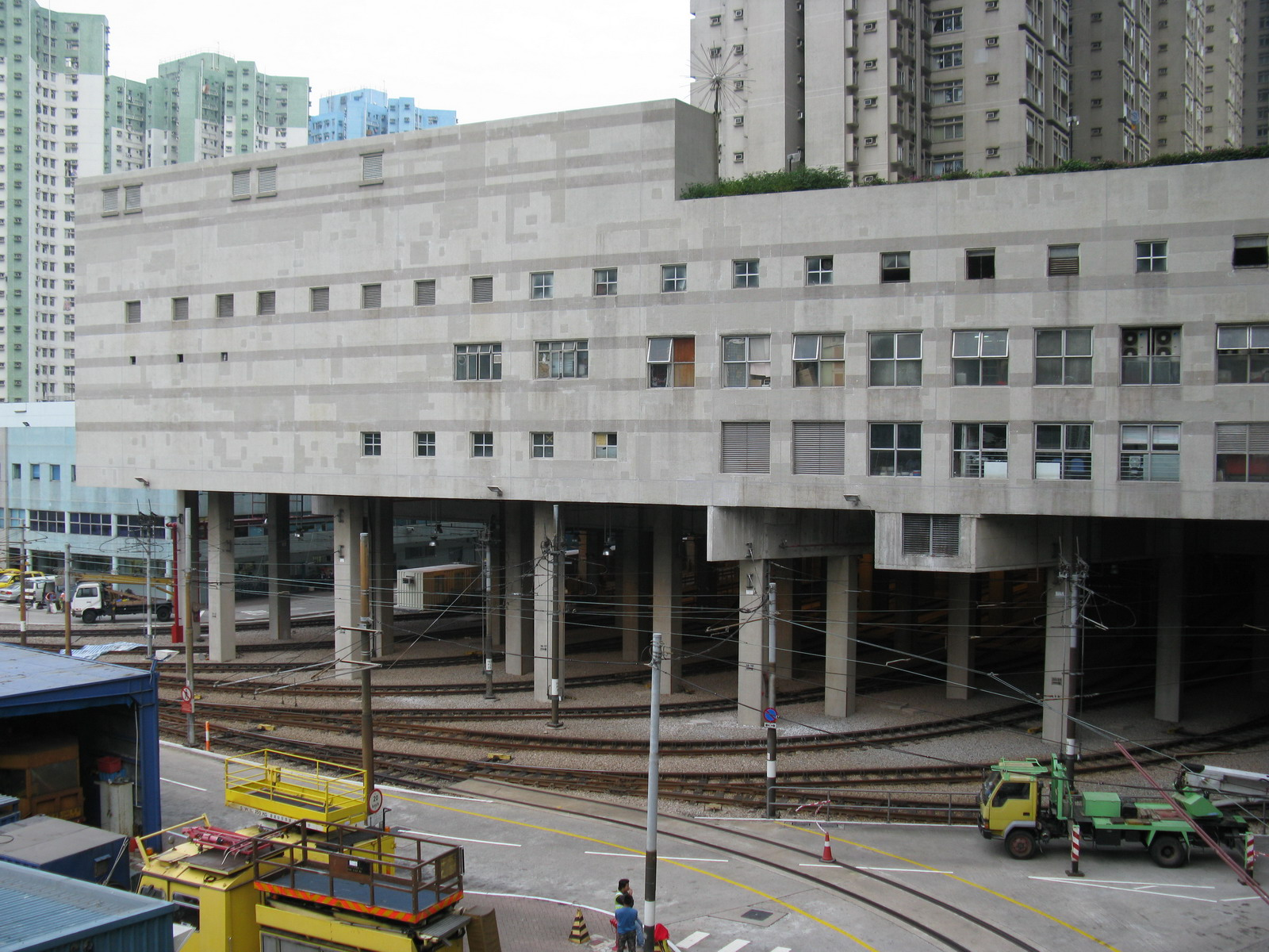 LRT Depot / Sun Tuen Mun Centre